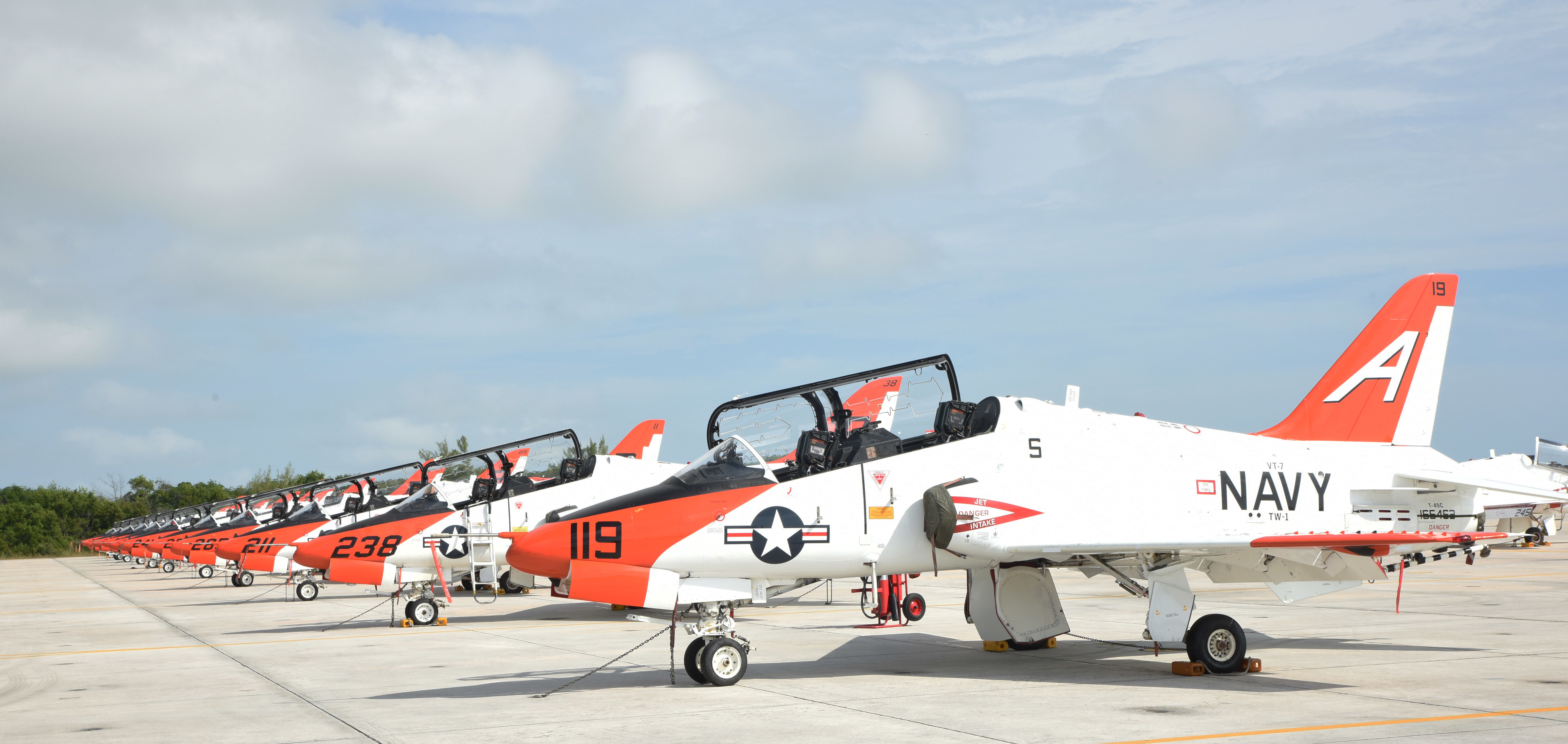 161207-N-SX614-032 KEY WEST, Florida (December 7, 2016) 40 T-45 Goshawk jets from Chief of Naval Air Training Command sit on Naval Air Station Key West’s Boca Chica Field preparing for their aircraft carrier qualifications. The student aviators are flying the T-45s during Field Carrier Landing Practice before they head out to the carrier USS George Washington (CVN 73) for their first aircraft carrier landings. NAS Key West is a state-of-the-art facility for air-to-air combat fighter aircraft of all military services and provides world-class pierside support to U.S. and foreign naval vessels.. (U.S. Navy photo by Petty Officer 2nd Class Cody R. Babin/Released)